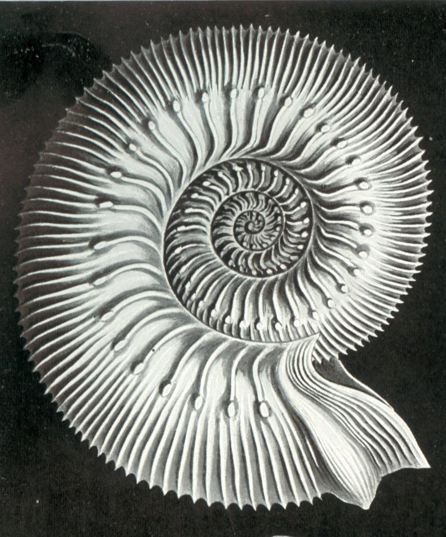 Stephanoceras humphriesianum (Sowerby, 1825), from the side